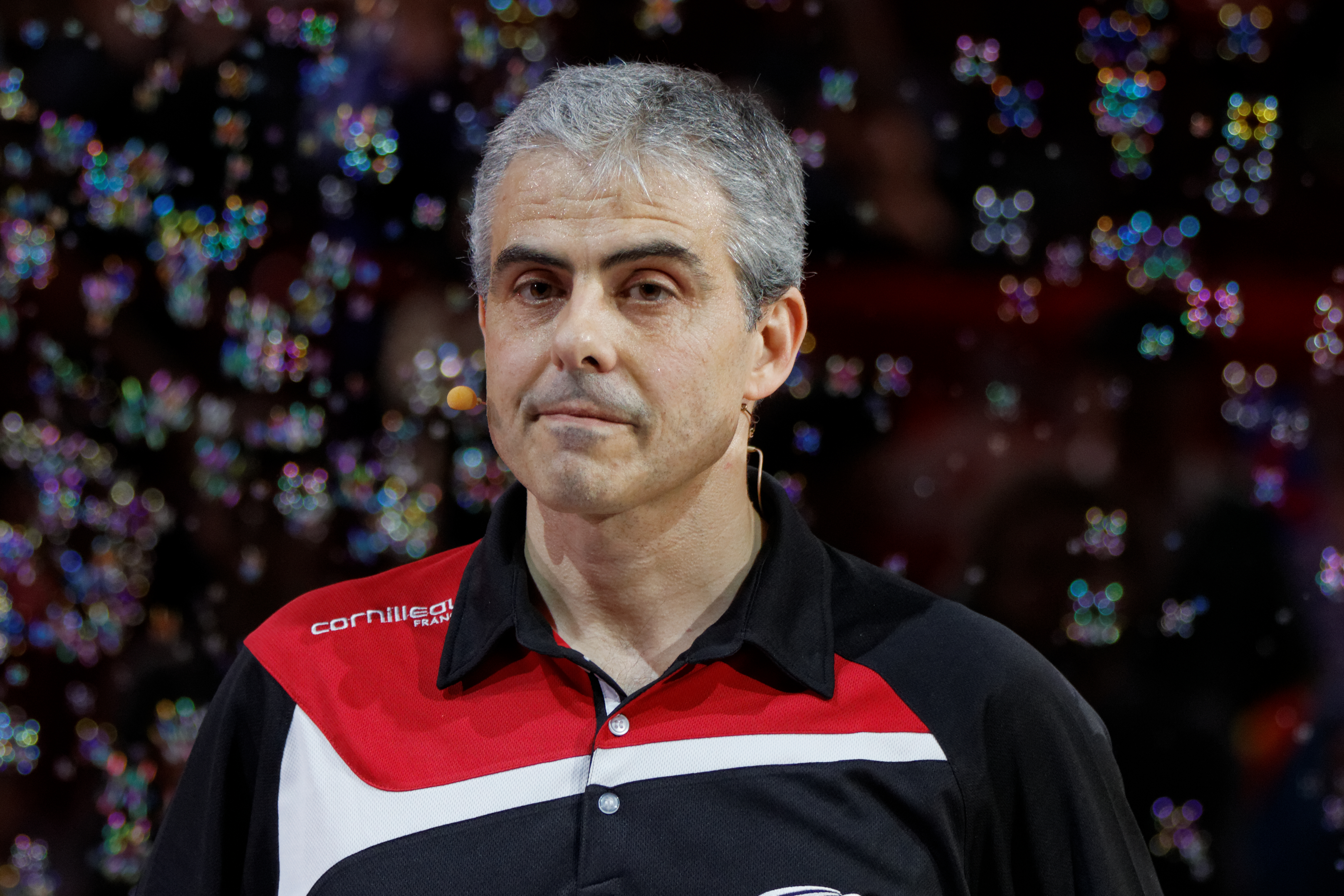 2013 World Table Tennis Championships, Paris. Jean-Michel Saive vs Jean-Philippe Gatien exhibition match.